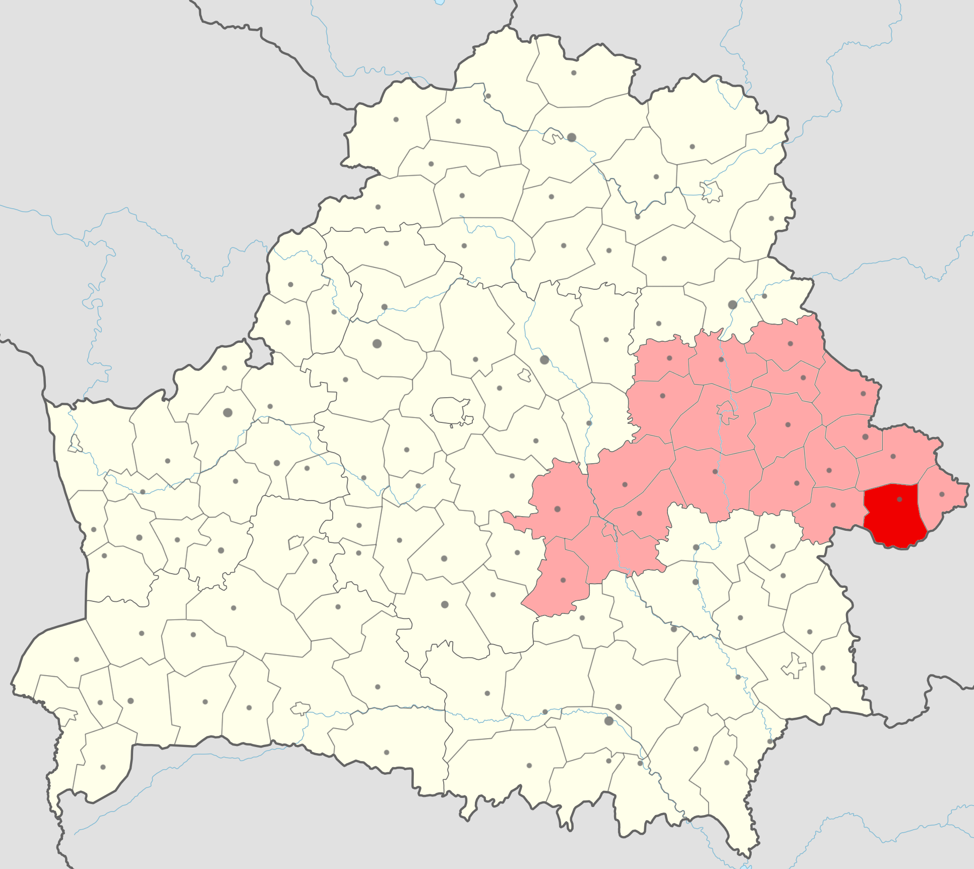 Location of Kasciukovicki rajon (red) in Mahilioŭskaja voblasć (light red) in Belarus.